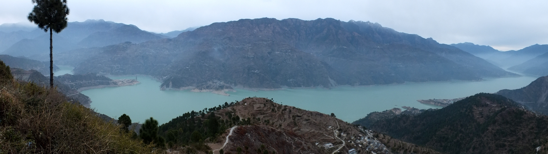 Tehri Dam lake Panorama.